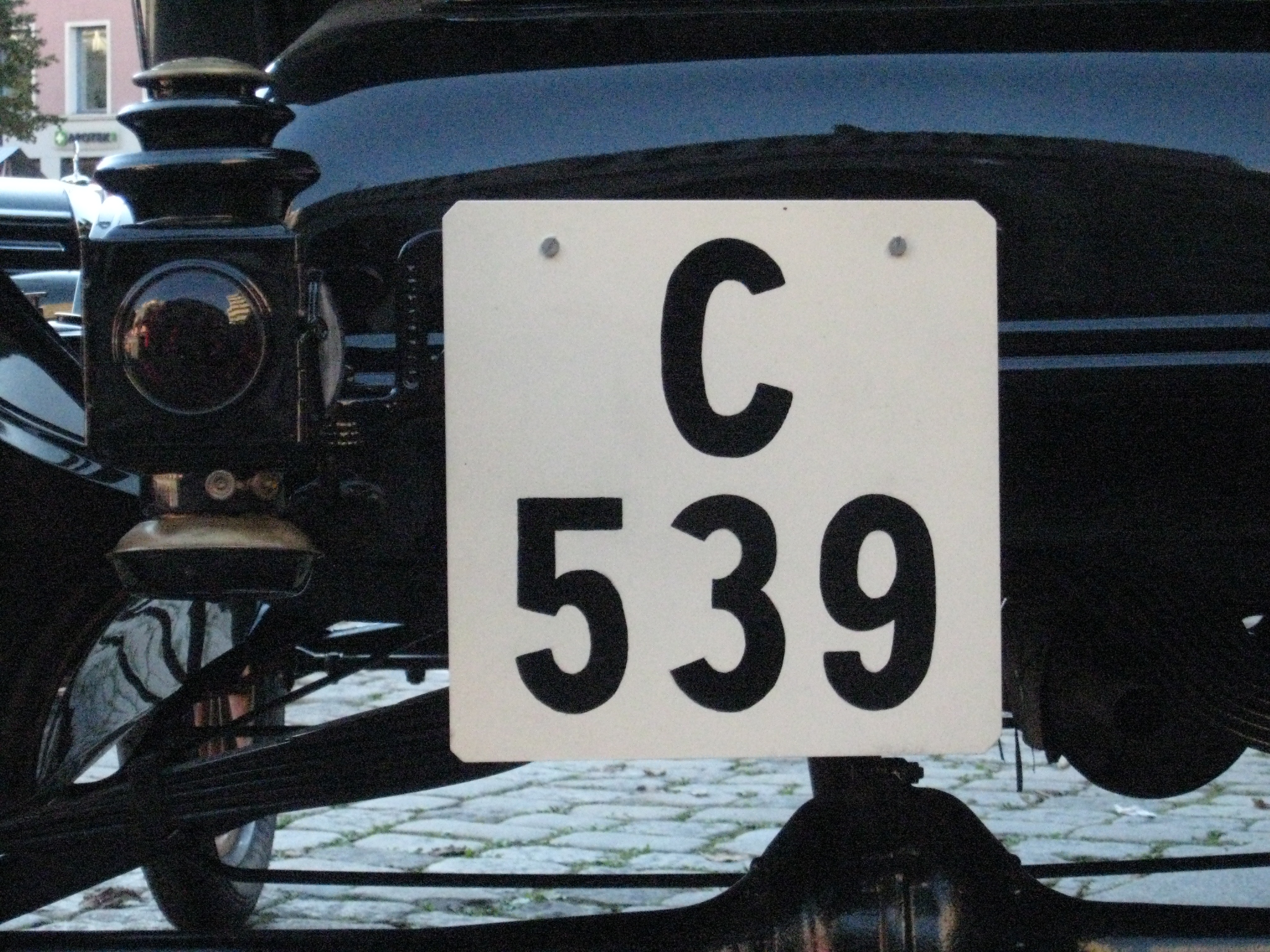 Automobile licence plate Norway 1913-1928